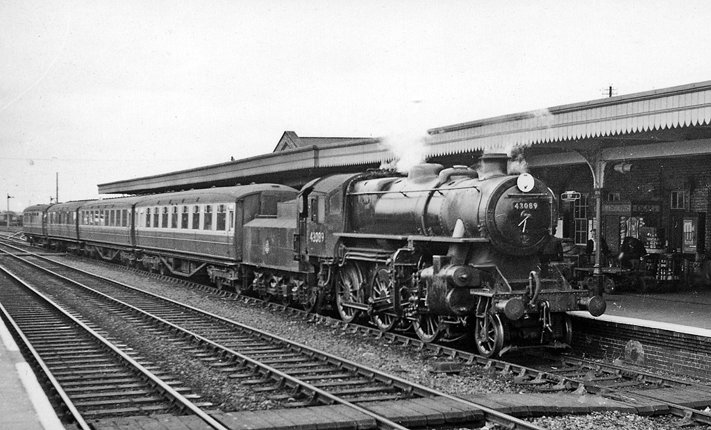 The Hunstanton portion of the 10.39 service from Liverpool Street at Ely. View SW, towards Cambridge and London, from the Up platform. The locomotive is LMS Ivatt 4MT 2-6-0 No. 43089. Note the white disc on the smokebox in lieu of a lamp.